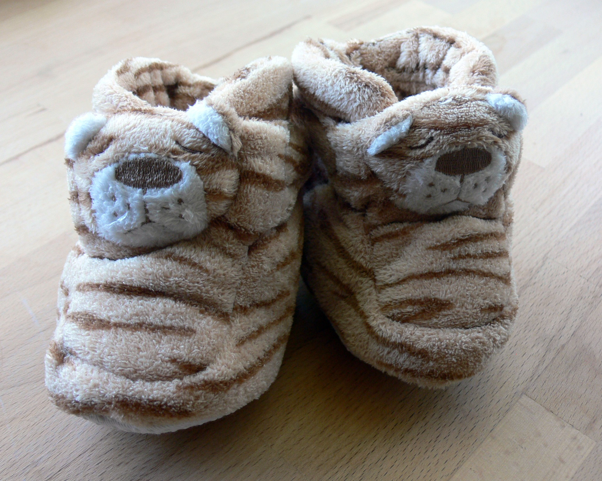 Thank you Mom!